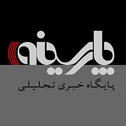 Parsine News Site